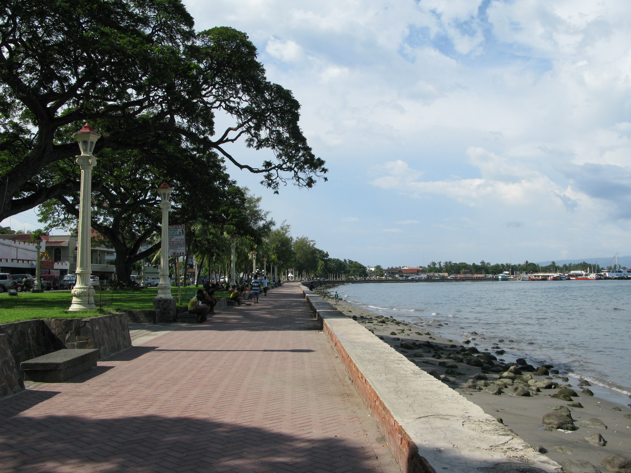 Promenade along Rizal Boulevard in Dumaguete City